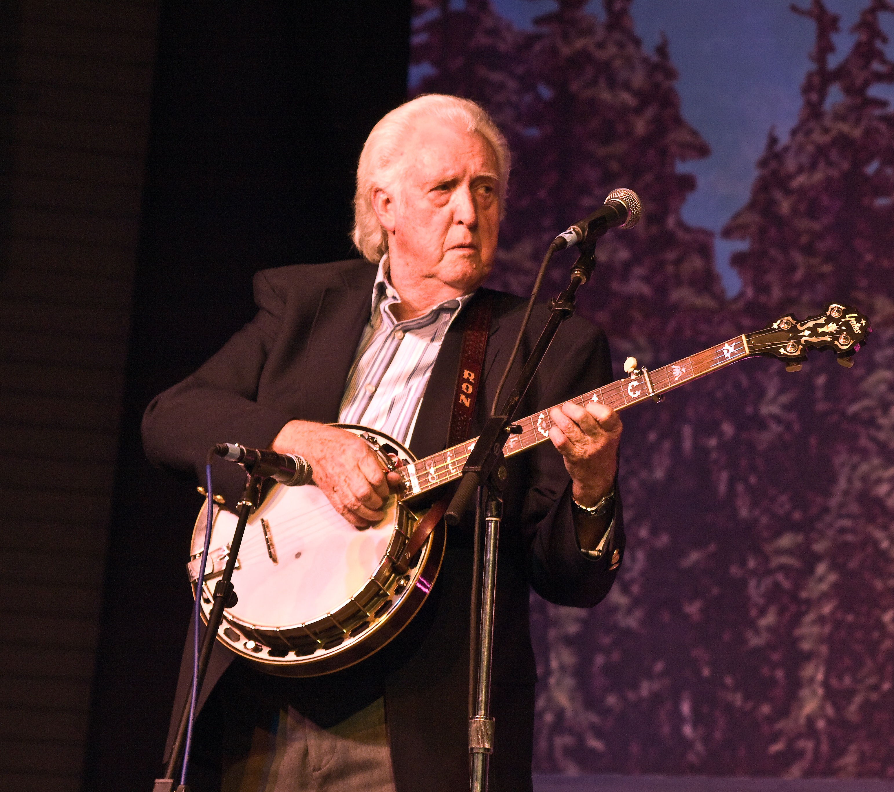 J.D. Crowe